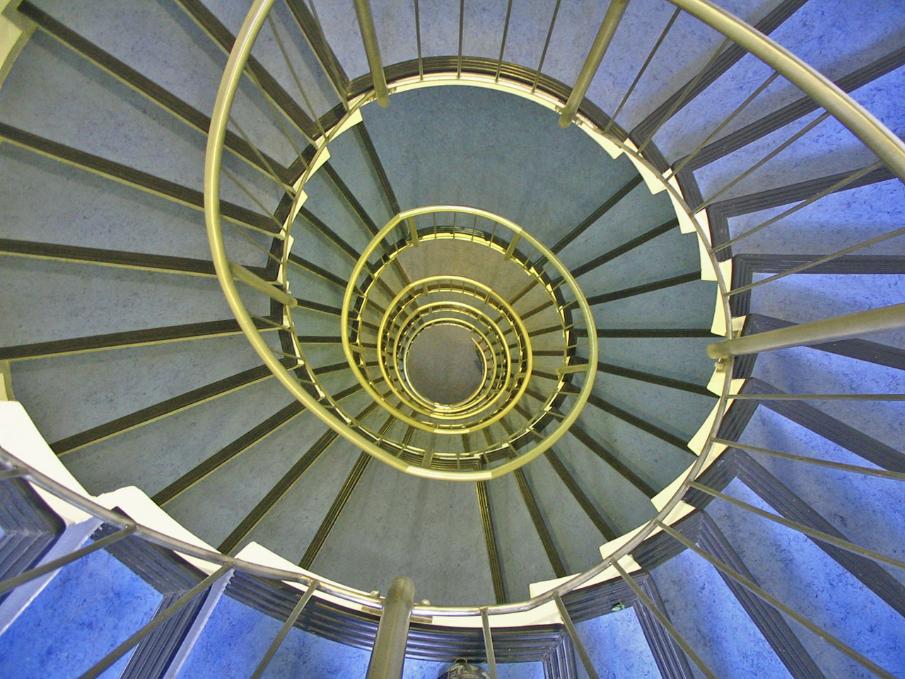 leaning over the banisters and looking downstairs into the staircase.